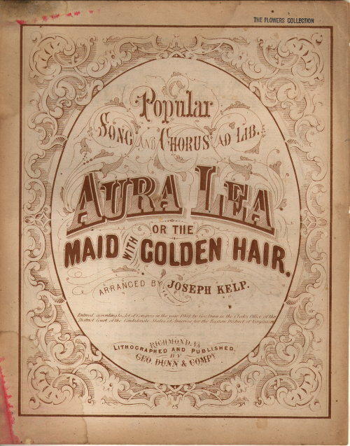 Cover of Confederate sheet music.